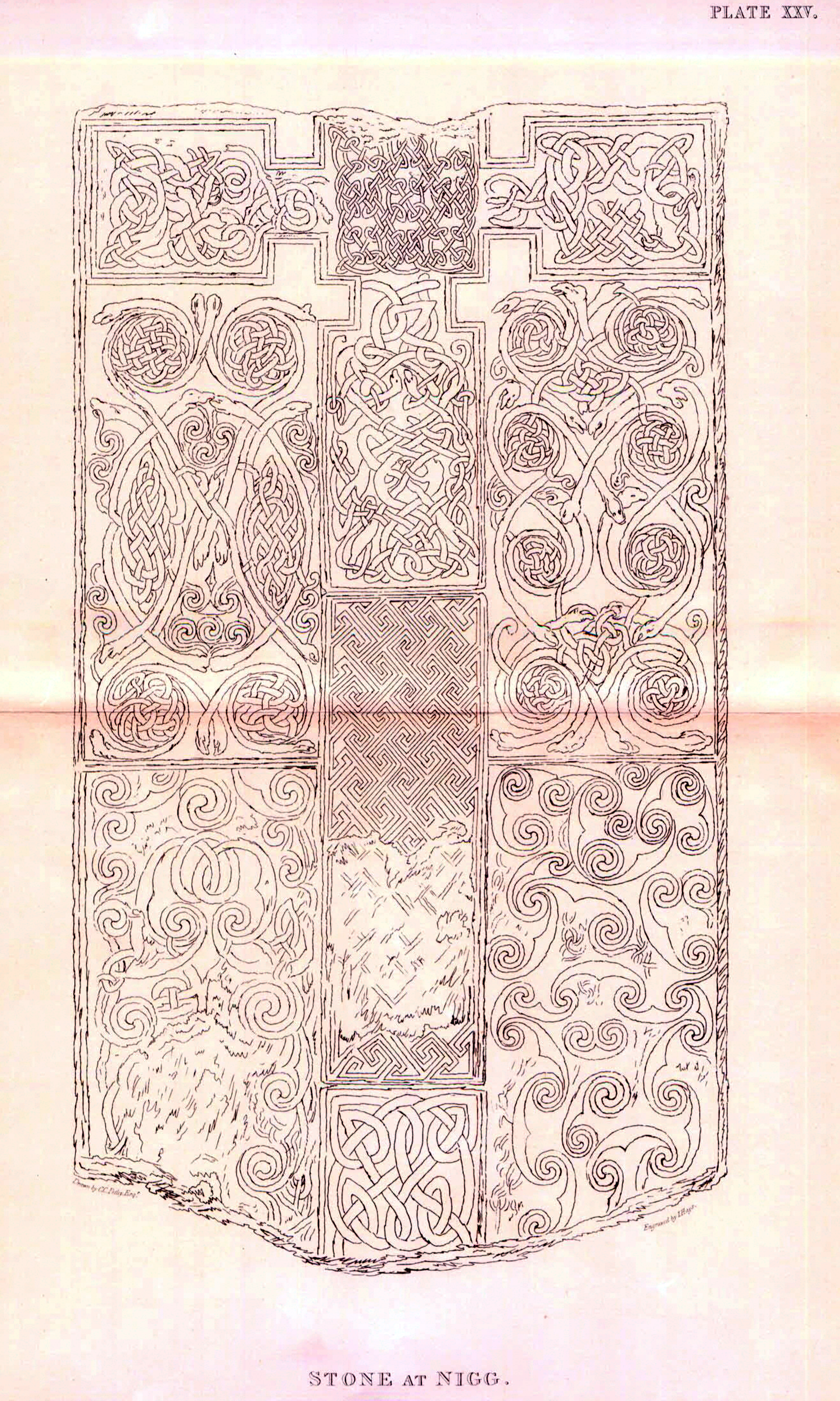 Stone of nigg, cross-side, lower part